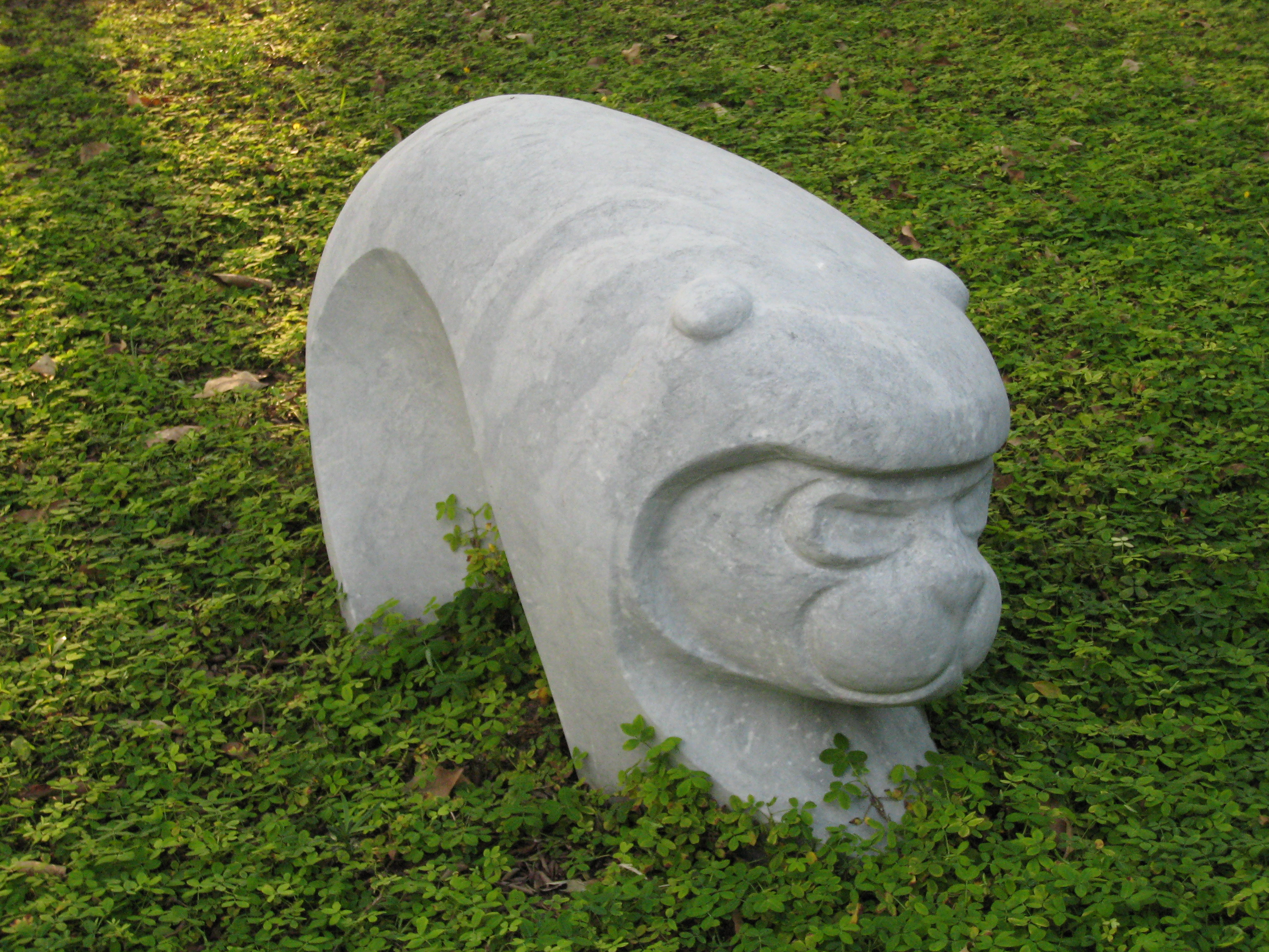 The Monkey statue is one of the 12 Chinese zodiac portrayed in the Kowloon Walled City Park in Kowloon City, Hong Kong.